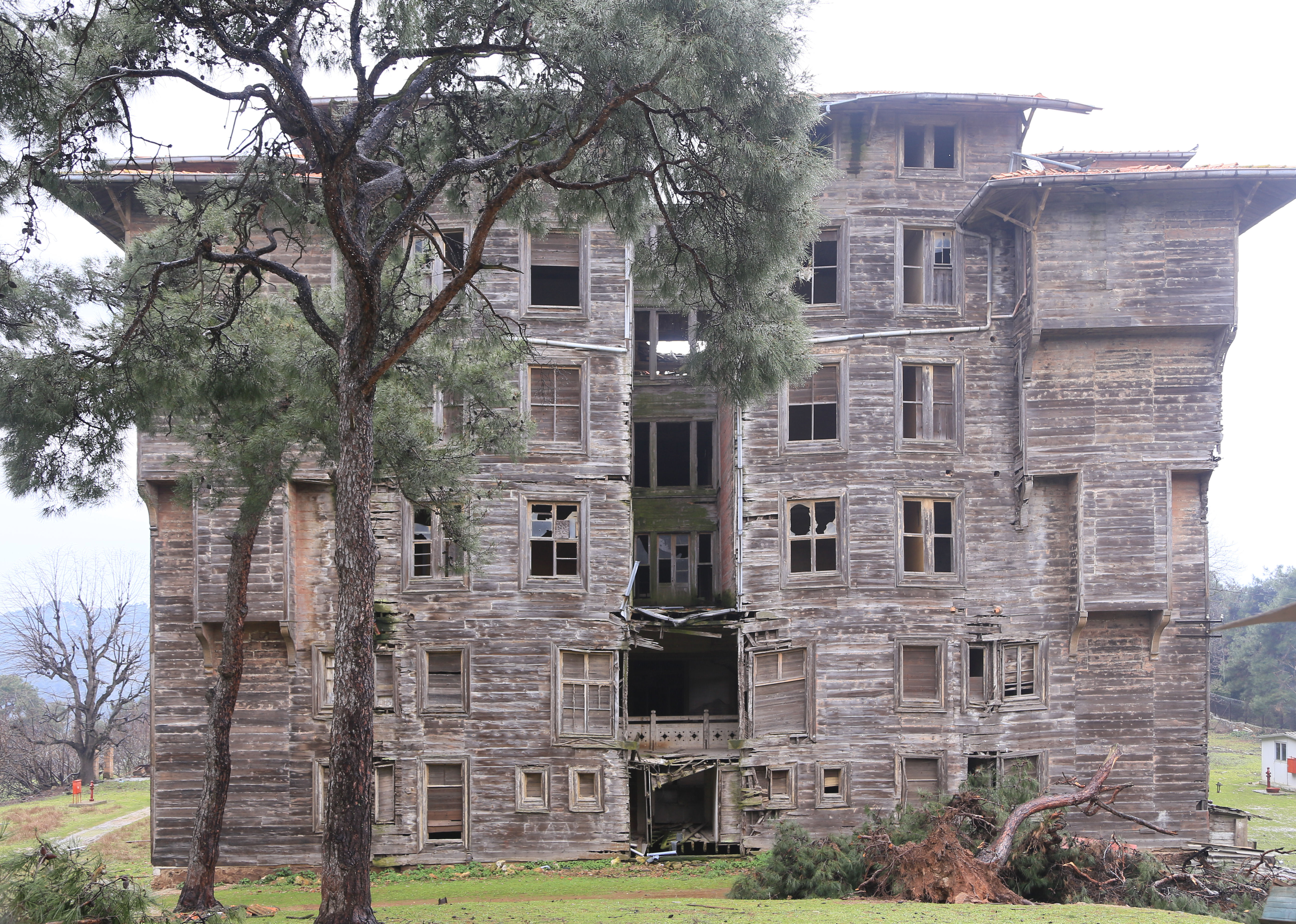 The old Greek Orphanage on Büyükada, an island in the Bosphorous